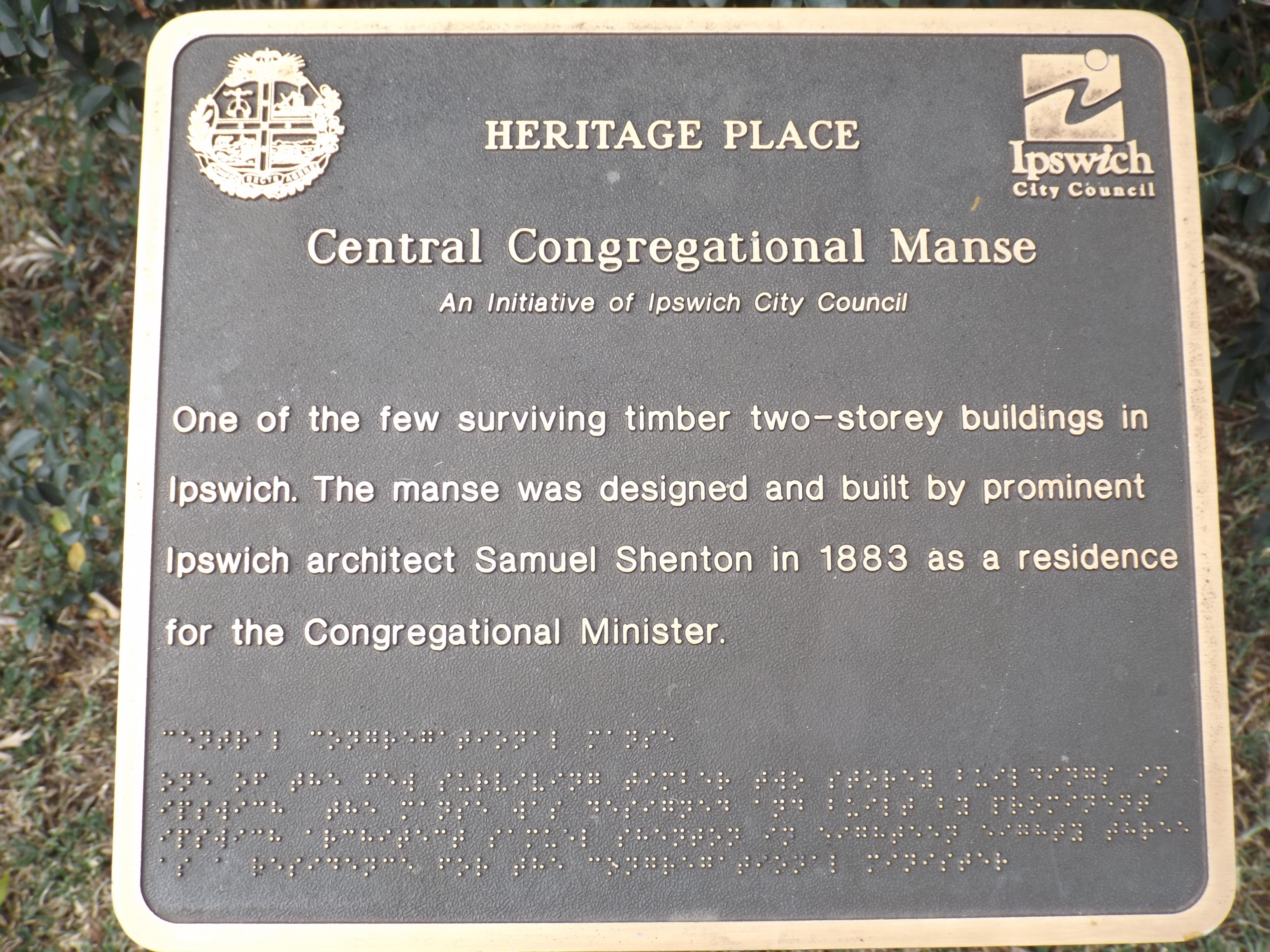 Photo of the Central Congregational Church Manse plaque at Ipswich, Queensland, Australia.